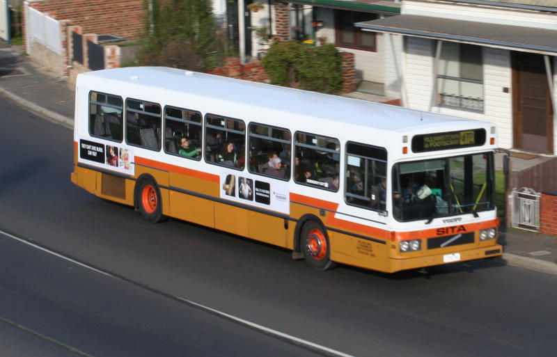 Sita Bus Lines Volgren bodied Volvo B10M bus in Footscray, Victoria, Australia.